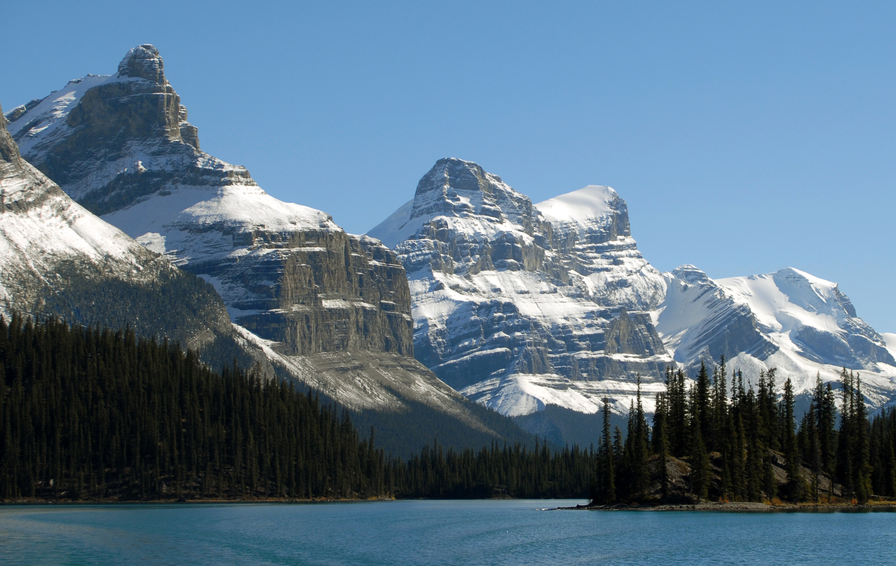 Mount Paul, Monkhead, Maligne Lake. Jasper National Park, Canada